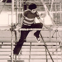 Screenshot from Mosafer (The traveller), a 1974 film by Abbas Kiarostami